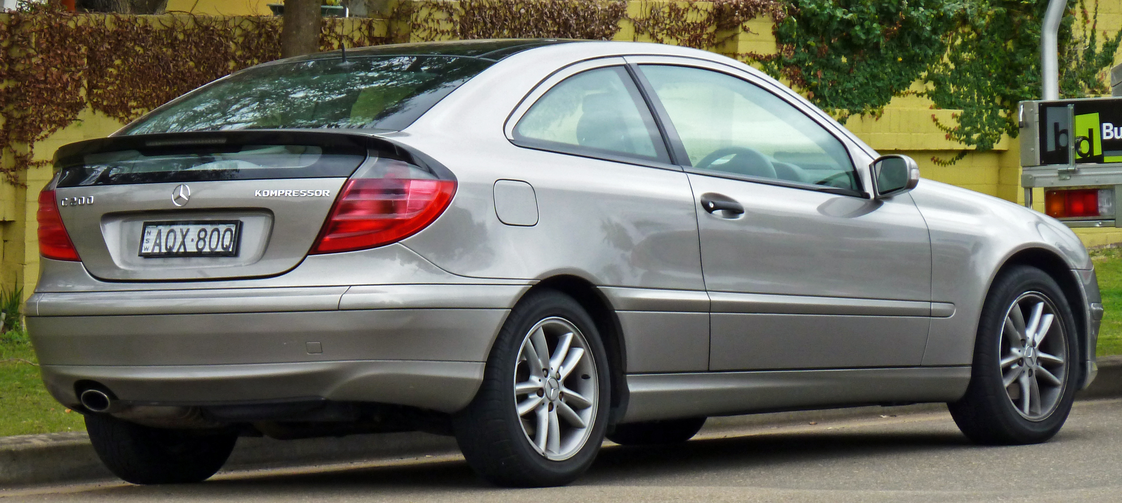 2004 Mercedes-Benz C 200 Kompressor (CL 203 MY03) hatchback. Photographed in Cronulla, New South Wales, Australia.